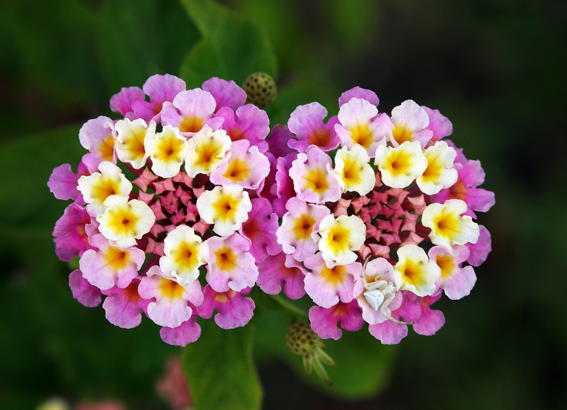 Twin Lantana camara 'Patty Wankler' with crab spider (Misumenoides formocipes) waiting for prey